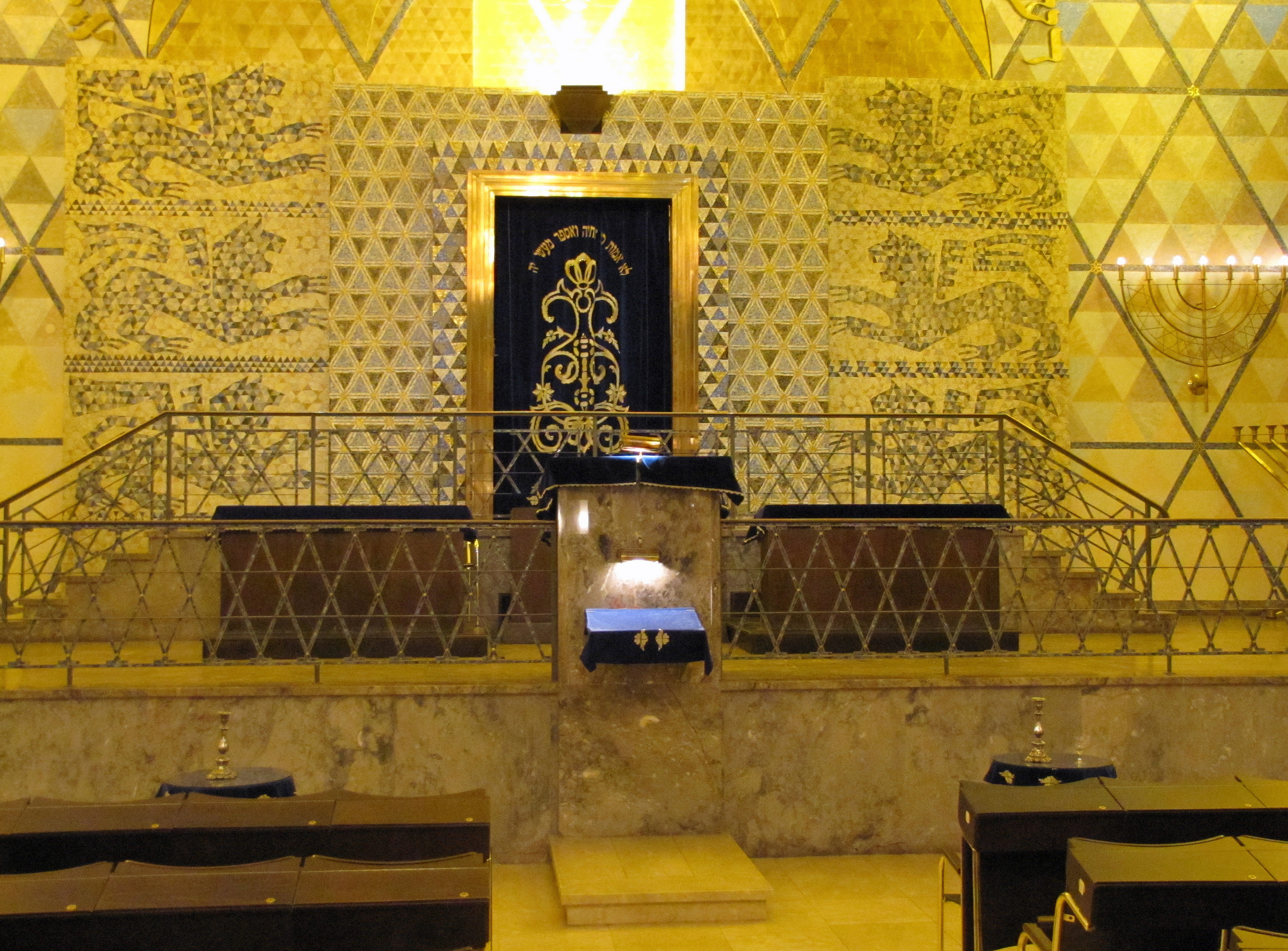 Torah ark, "Westend-Synagoge", Frankfurt am Main, Germany.